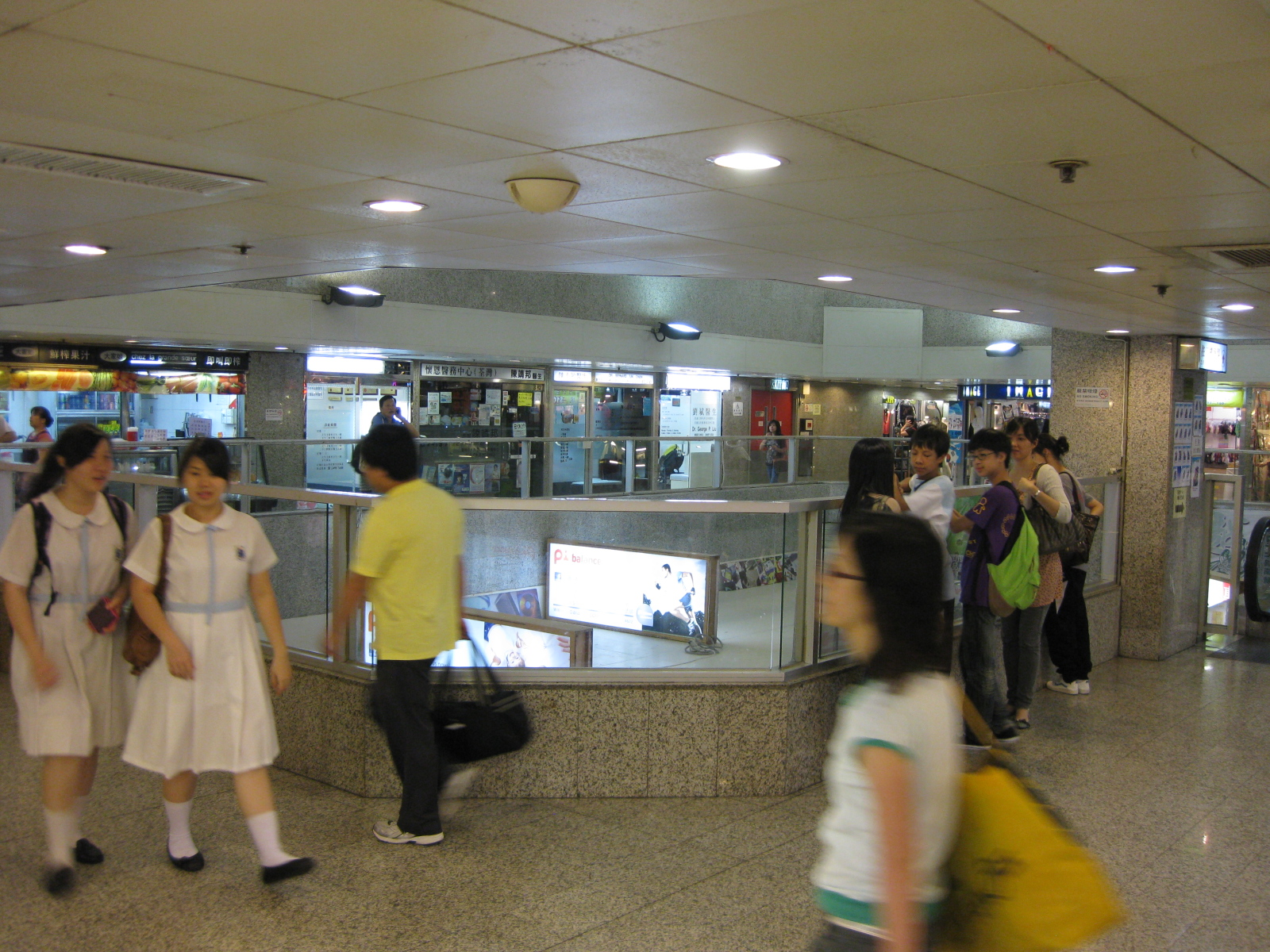 Tsuen Fung Centre Void